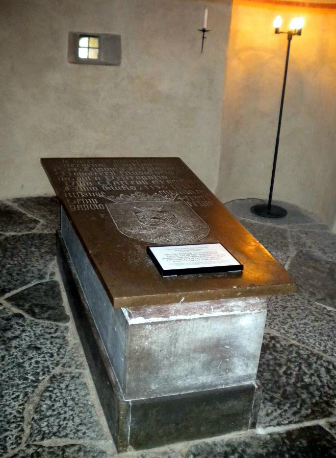 Family grave of King Ingi the Elder of Sweden (with a 16th century stone dedicated to his son Reynold) at Vreta Cloister ChurchPlace: Linköping, Sweden